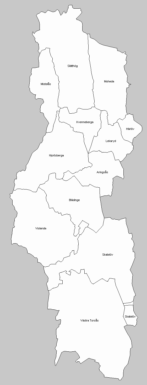 Parishes in Alvesta municipality